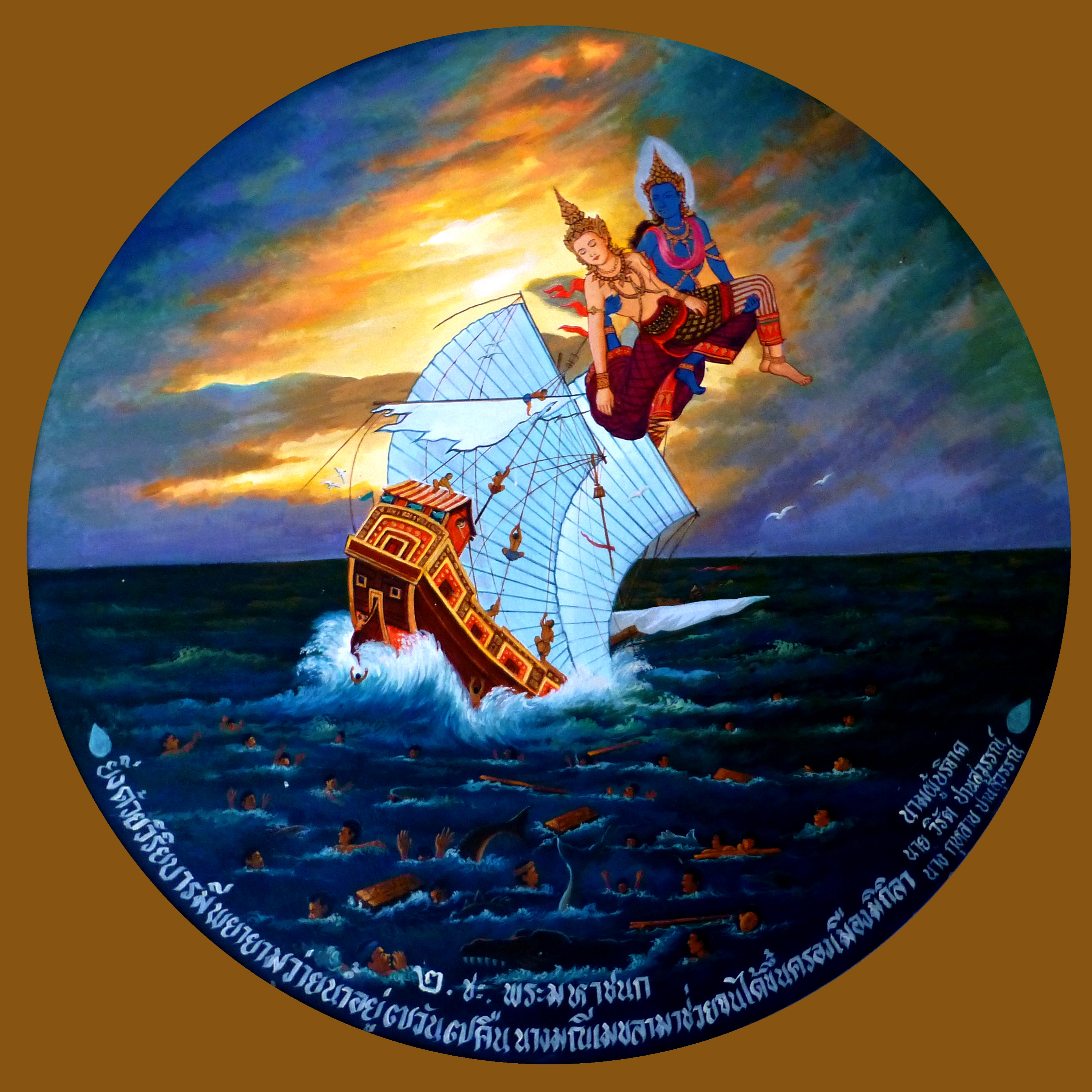 02 Energy, Janaka swims for Seven Days and is saved by Devi Manimekhala, Chedi Traiphop Traimongkhon Temple, Hatyai